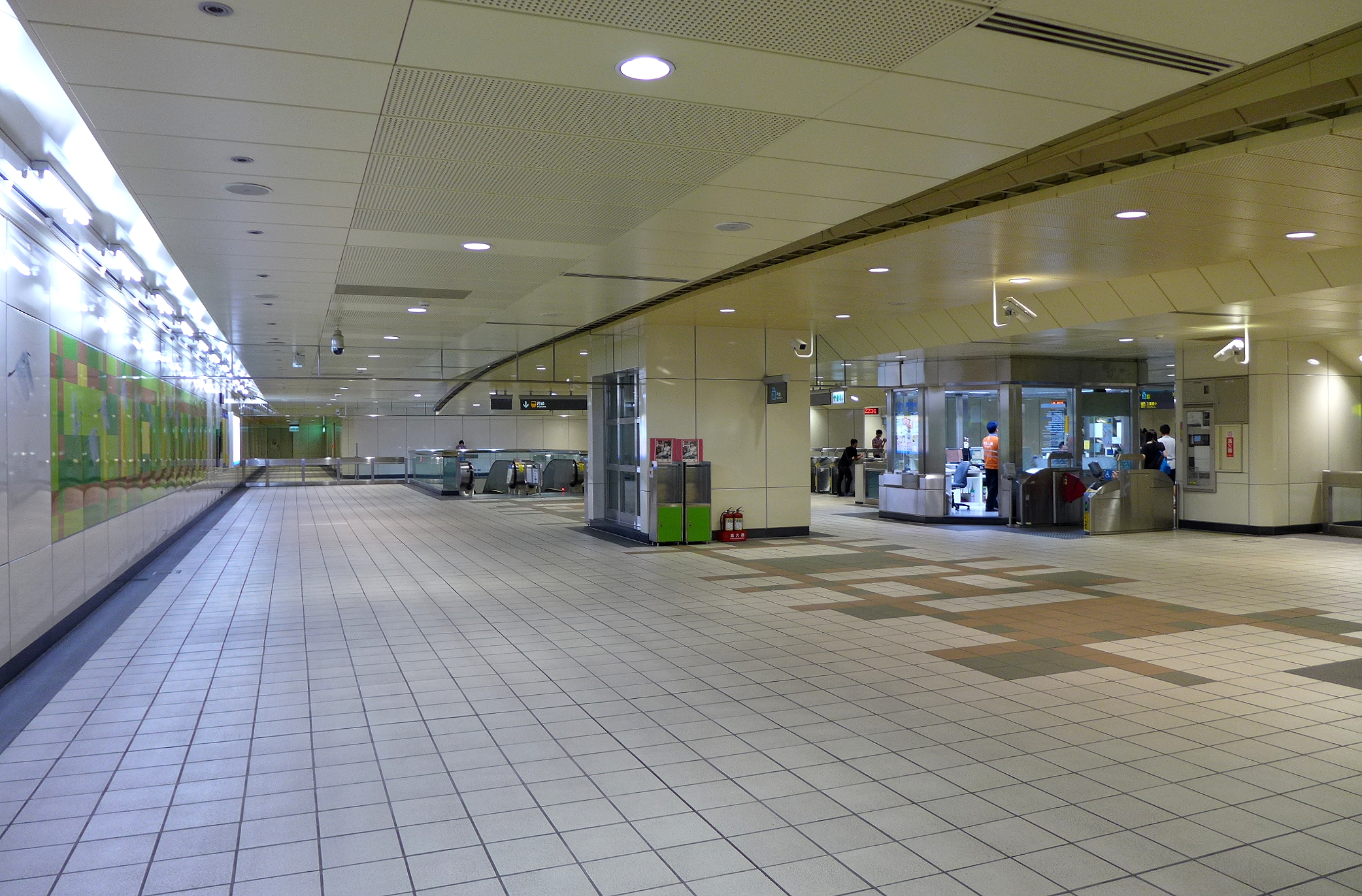 Sanchong Elemtary School Station Concourse